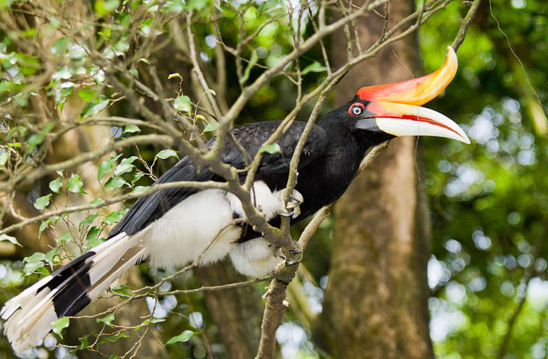 A Rhinoceros Hornbill at Kuala Lumpur Bird Park, Malaysia.